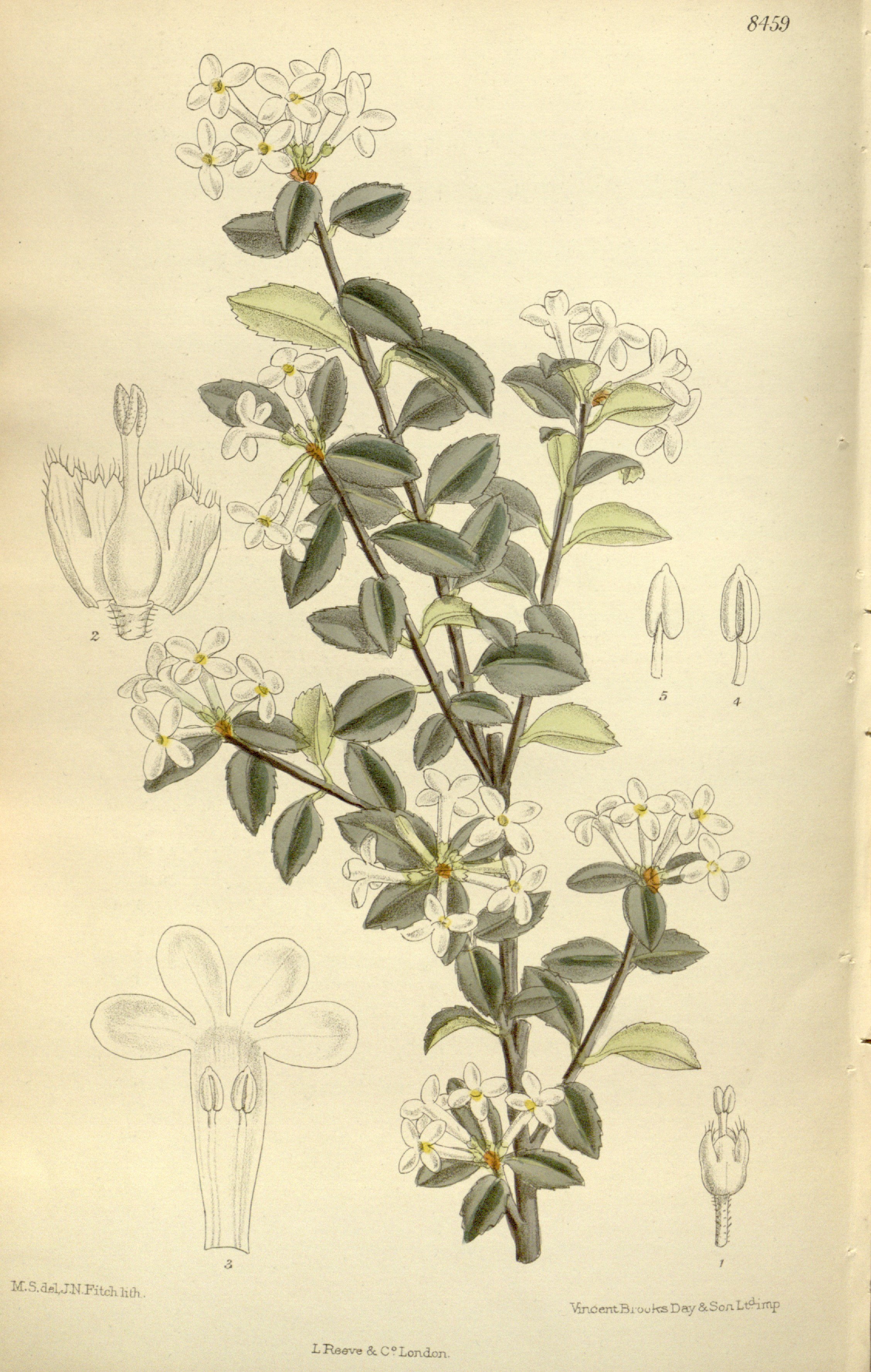 Osmanthus delavayi, Oleaceae